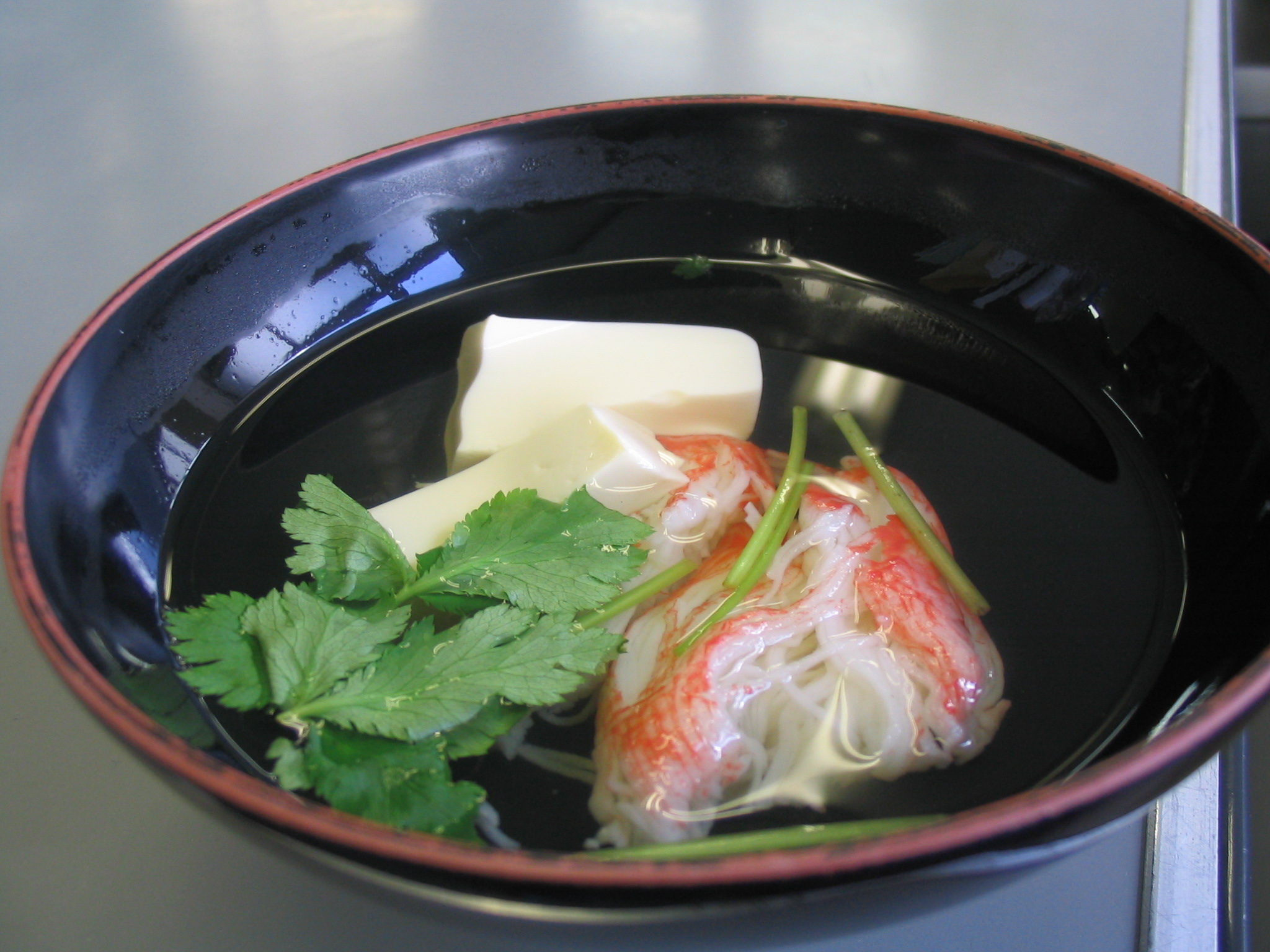 On special days like Sports Day, and graduation, we have special bento lunches (no, they aren't pinku). This is the one we had today. I was happy they remembered to include me. :) This was a light soup with crab and tofu.